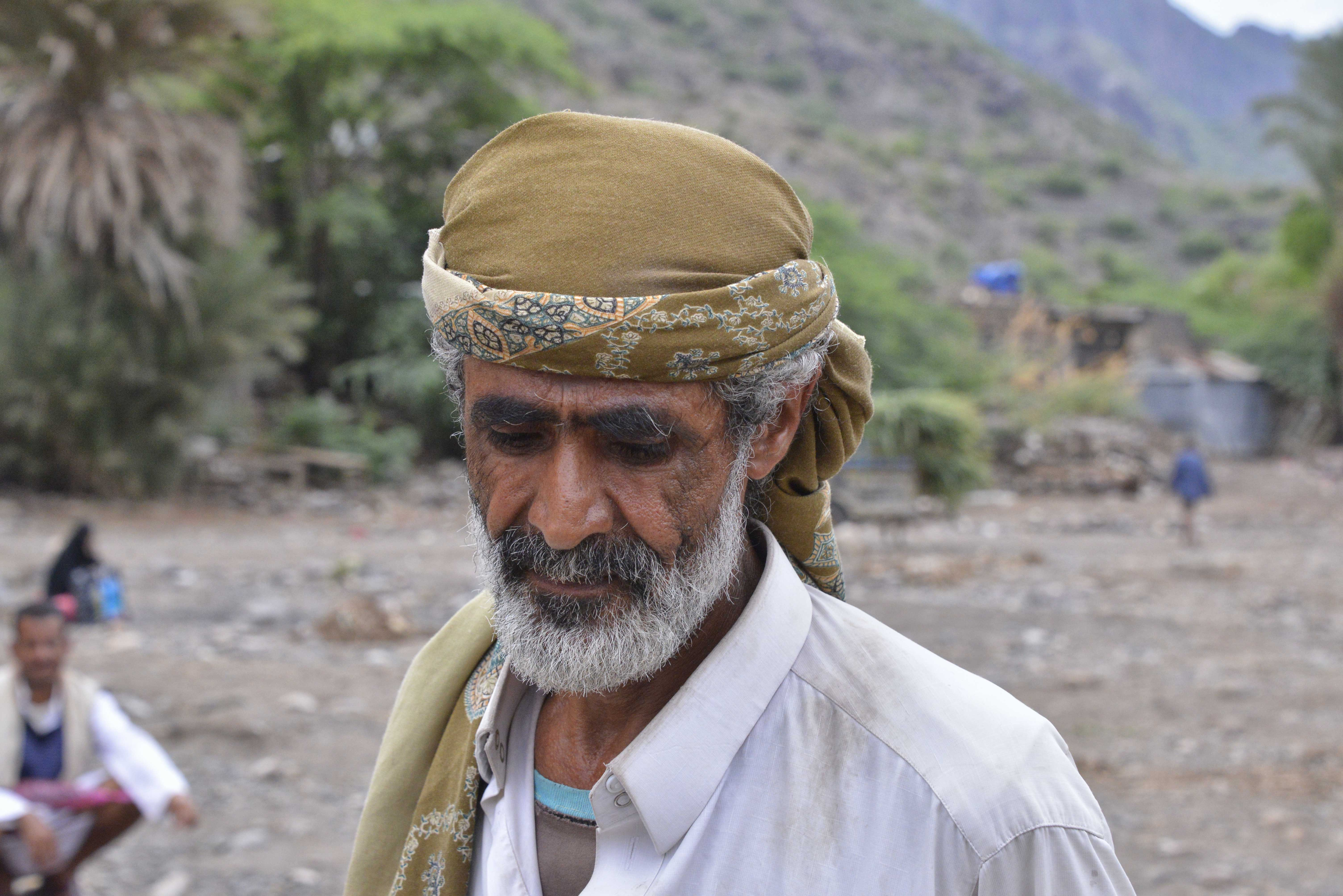 Man at the River, Yemen